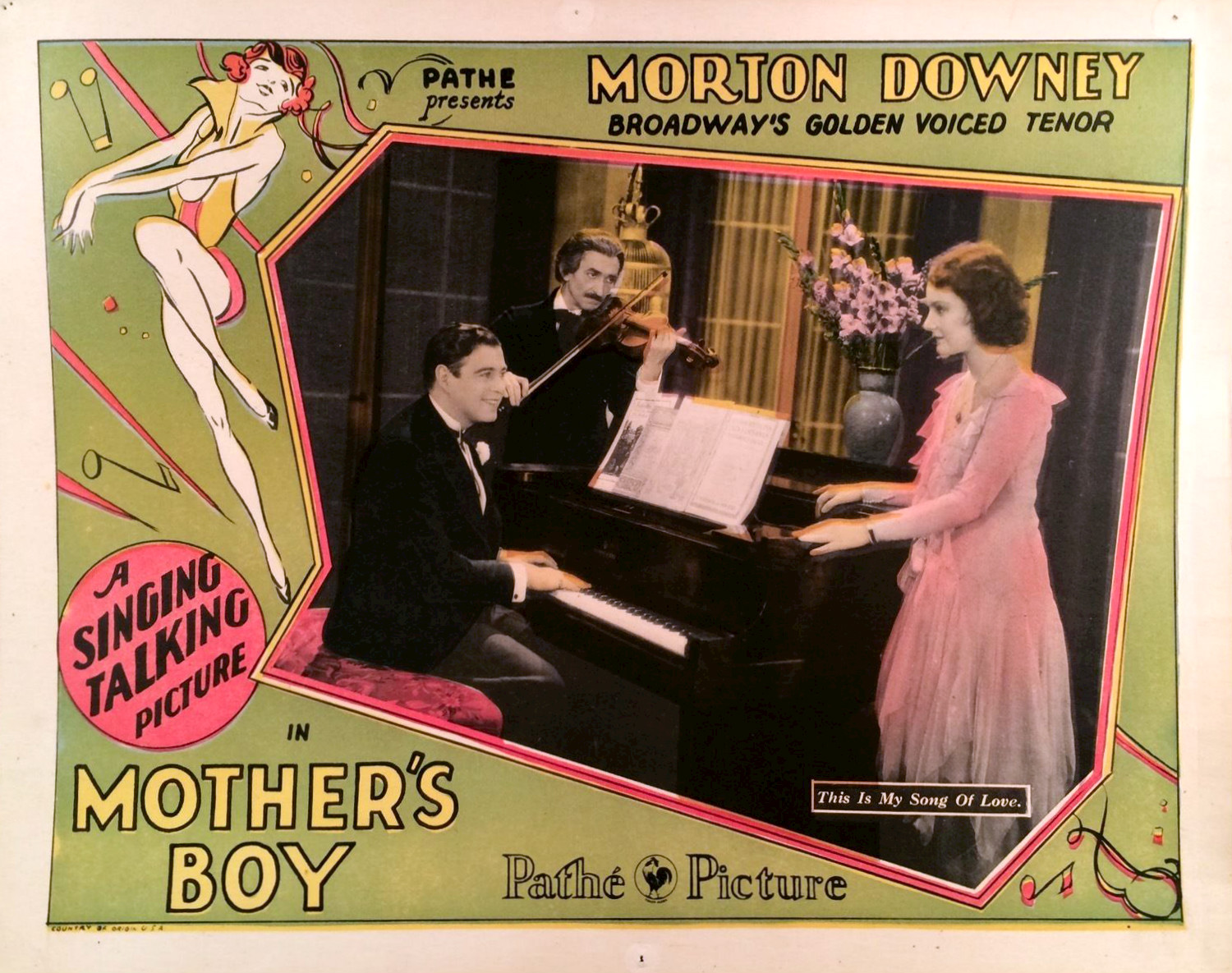 Lobby card for the American musical drama film Mother's Boy (1929). There are no copyright marks on the card. At bottom left is Country of origin USA.